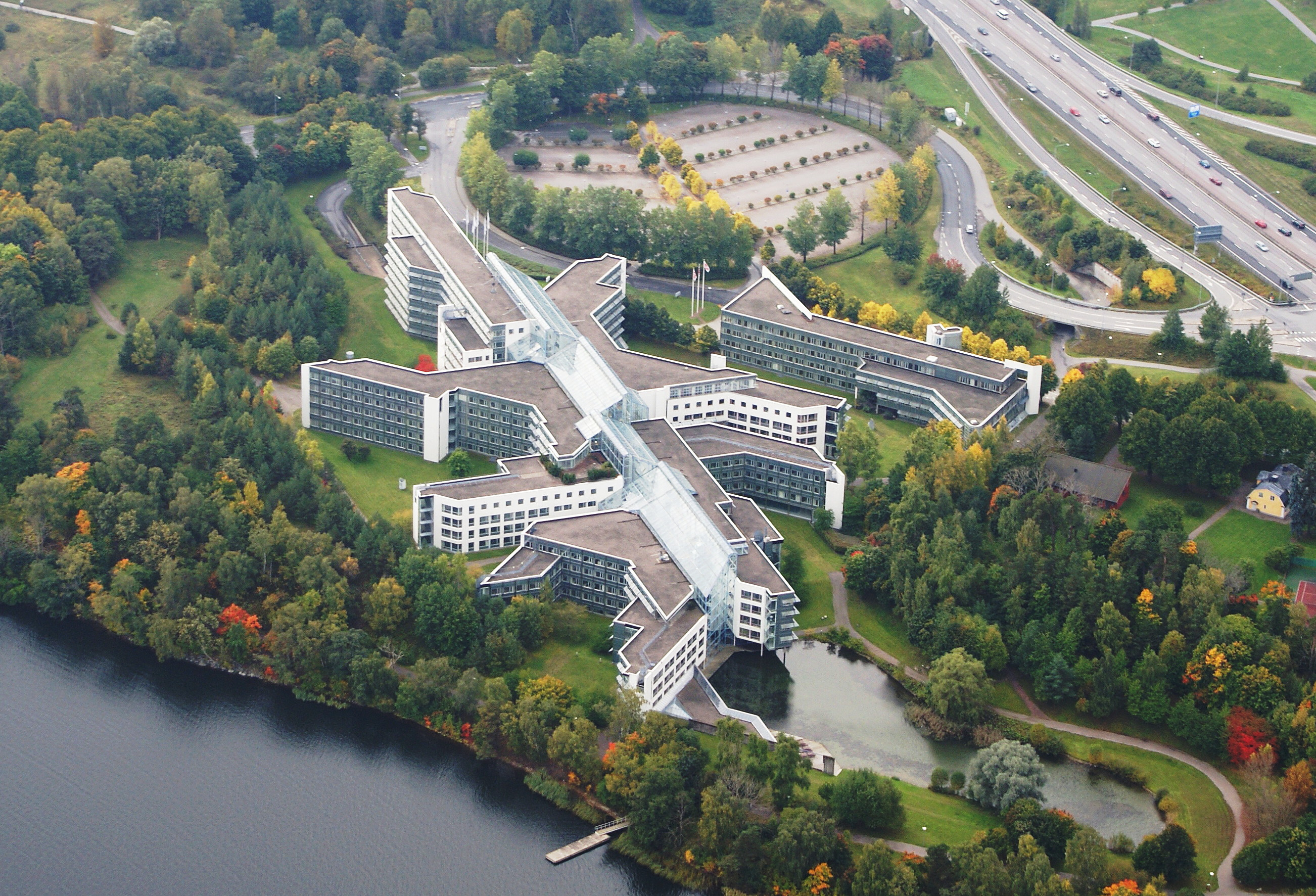 Former Scandinavian Airlines head office as seen by helicopter